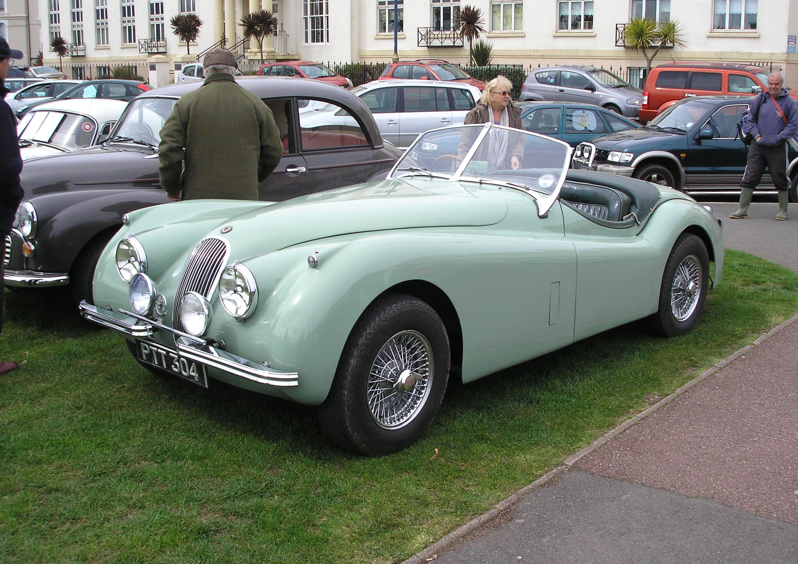 A car rally to celebrate the festival of St. George, on the Den at Teignmouth. Sunday 21st April 2013. Camera: Olympus FE-120 6.0 Digital.